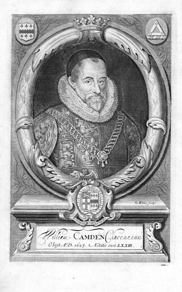 Portrait of William Camden as Clarenceux King of Arms engraved by Robert White (1645-1703). Published in Edmund Gibson's translation of Camden's 1586 Britannia: or a Chorographical Description of Great Britain and Ireland, 2nd edition, (London: Awnsham Churchill, 1722).